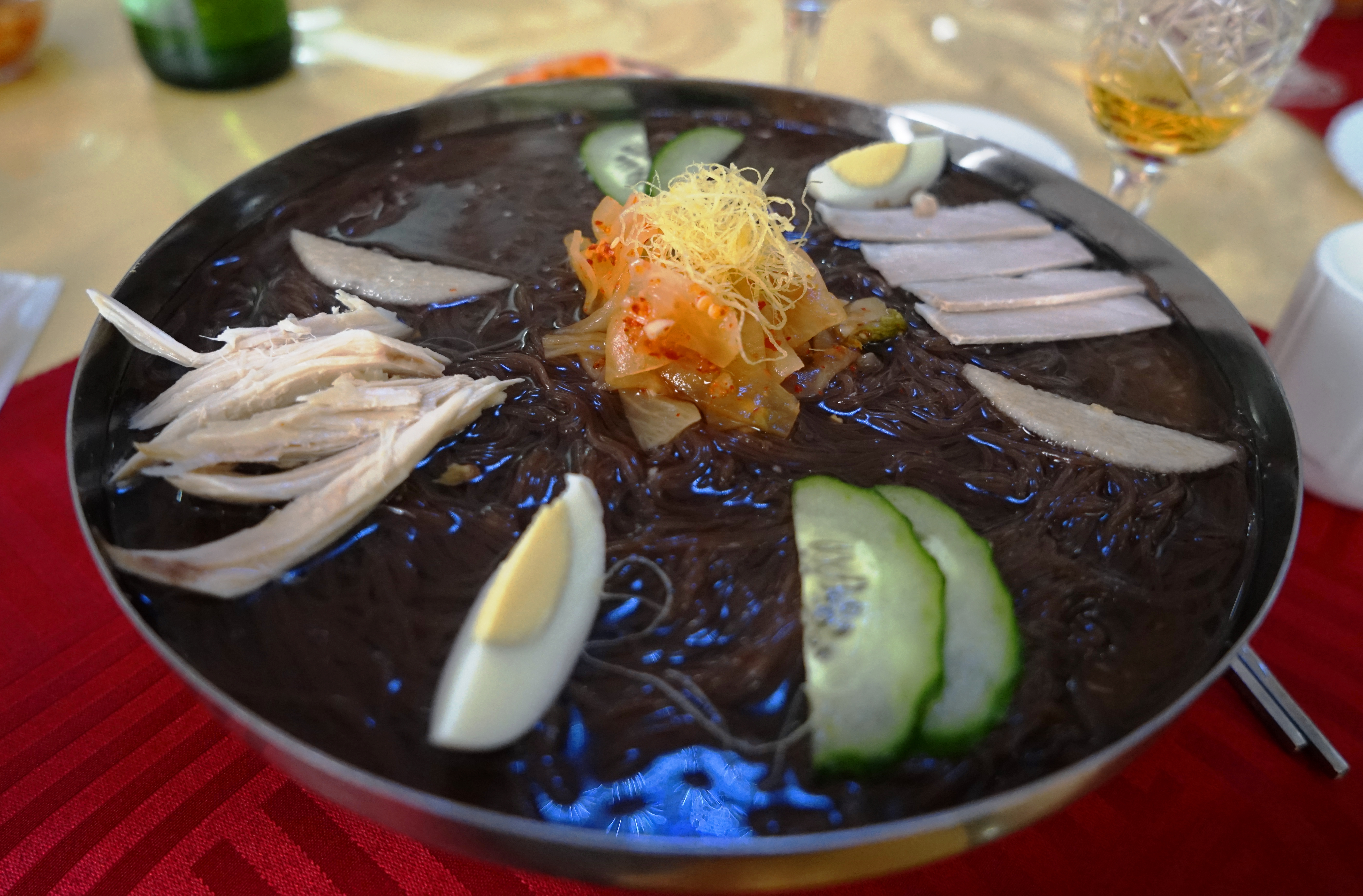 Pyongyang raengmyon(naengmyeon) taken at Pyongyang, North Korea